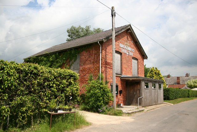 Broadbent Theatre. In a former Methodist chapel on Snarford Road, Wickenby. The Broadbent Theatre is named after Roy Broadbent and home to amateur theatre company the Lindsey Rural Players . Their honorary president is the brilliant oscar-winning actor Jim Broadbent, Roy's son.